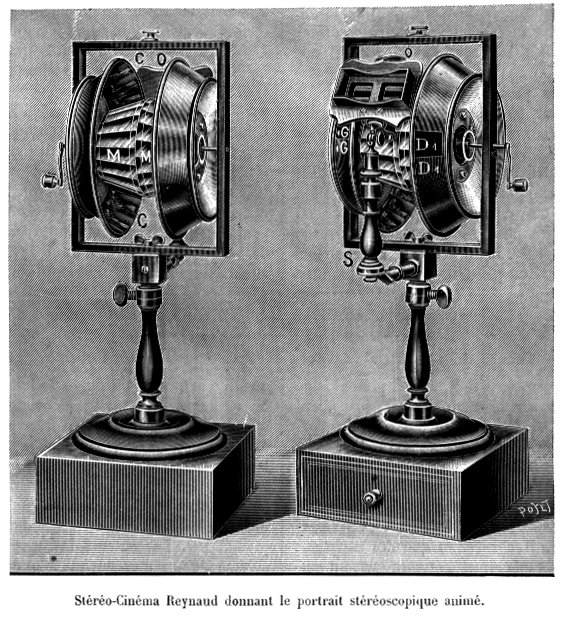 Stéréo-Cinéma patented in 1907 by Émile Reynaud, engraved by Louis Poyet in La Nature (French science magazine)